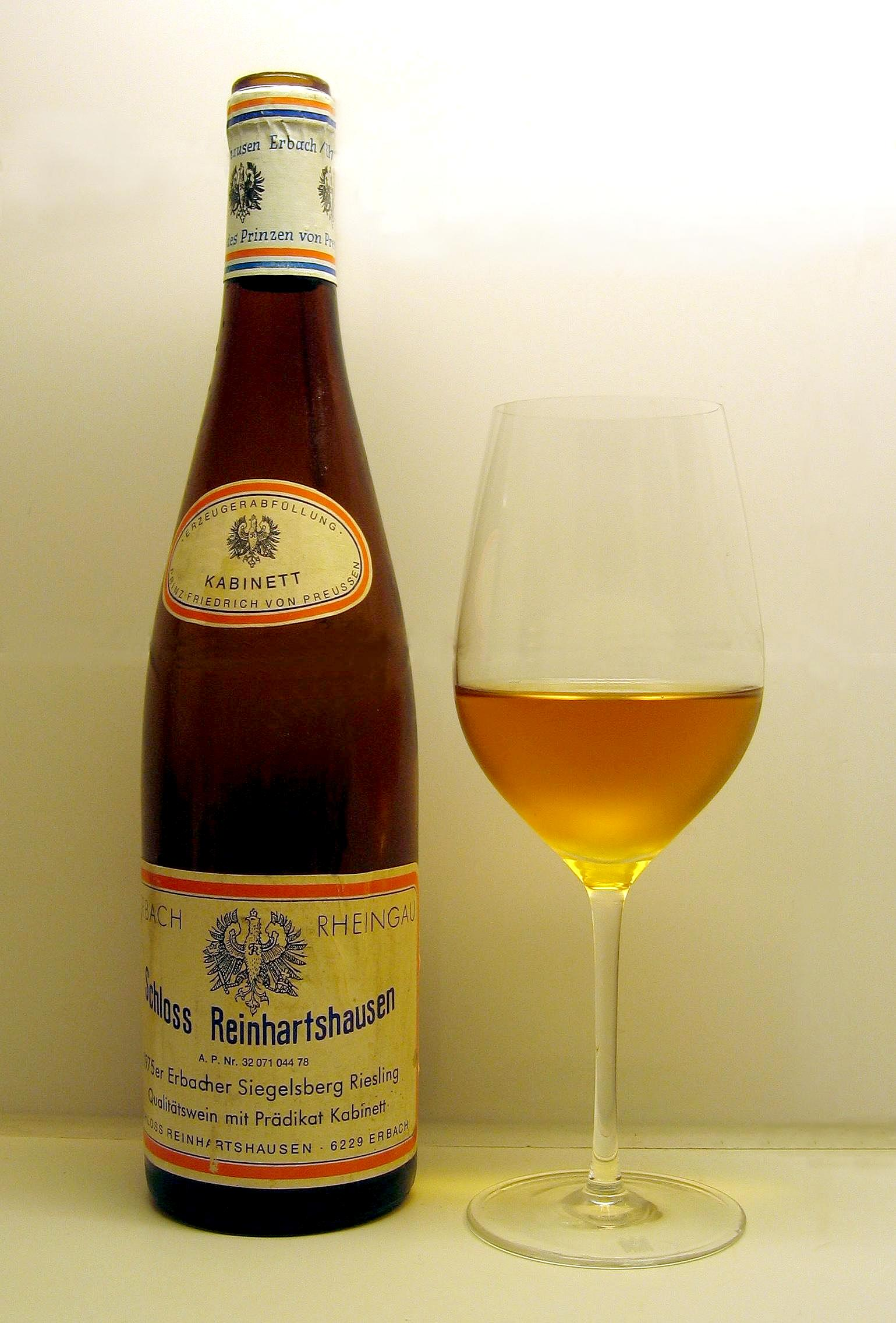 A German Riesling Kabinett of the 1975 vintage (produced by Prince Frederick of Prussia, Schloss Reinhartshausen in Erbacher Siegelberg vineyard in Rheingau), served at 32 years of age